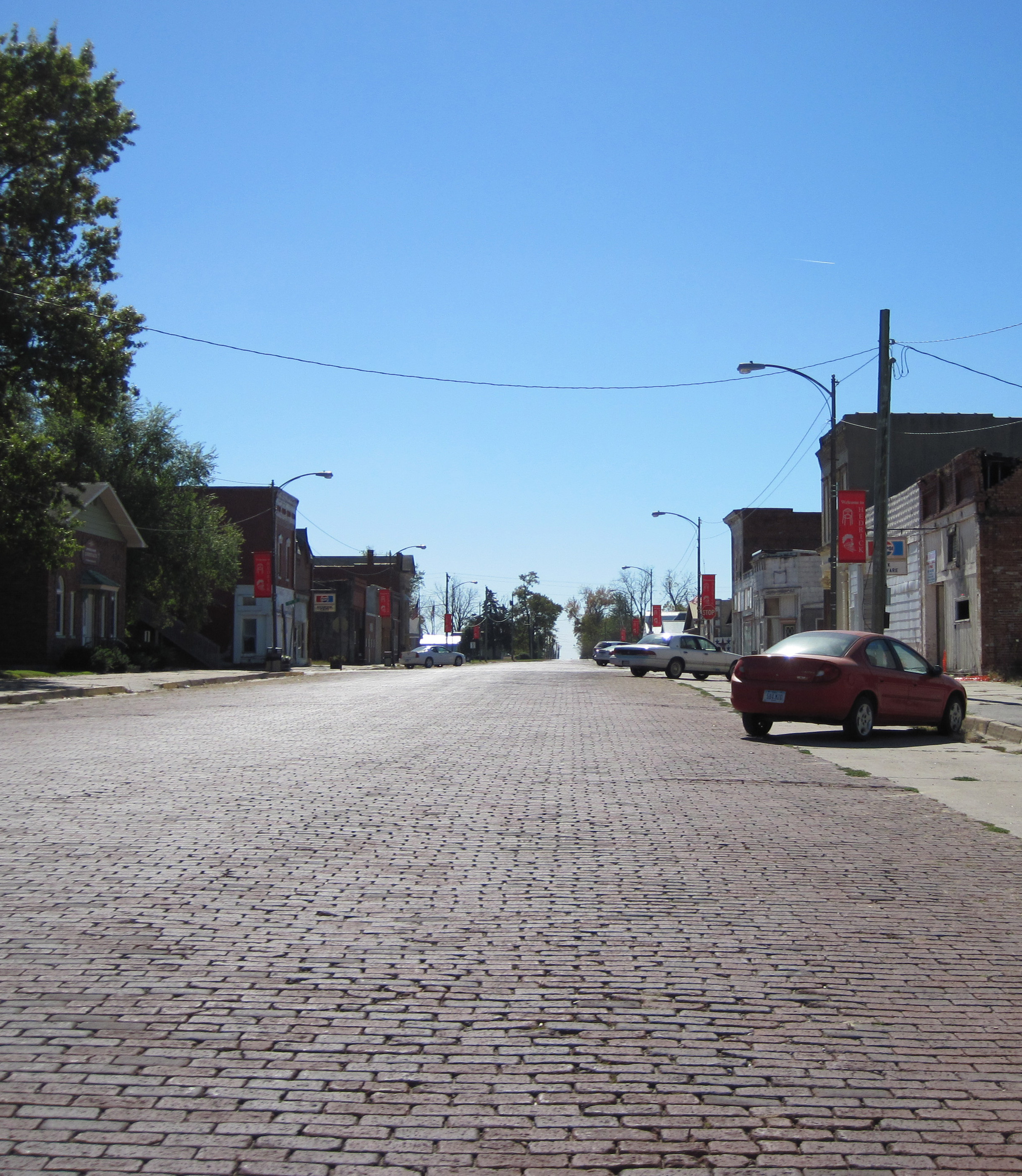 Hedrick